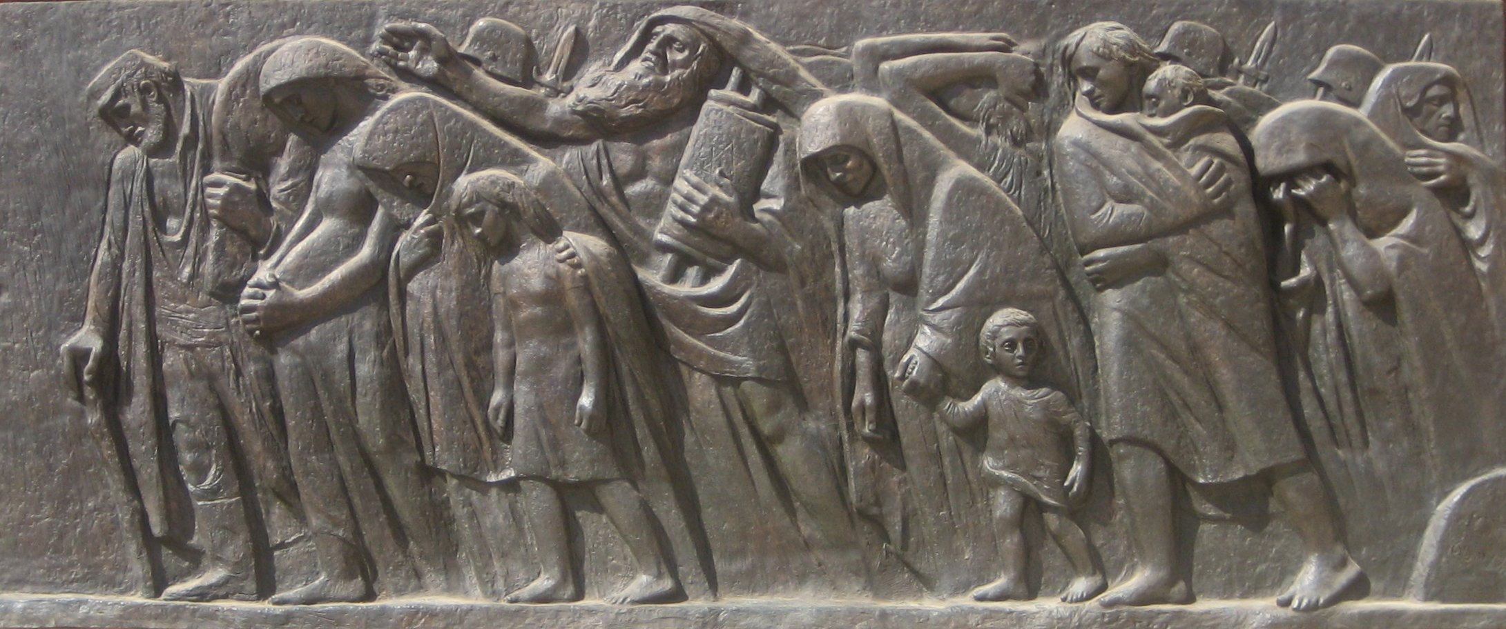 The Last March, bronze sculpture by Natan Yaakov Rapoport (1911-77), Yad Vashem, Jerusalem, Israel